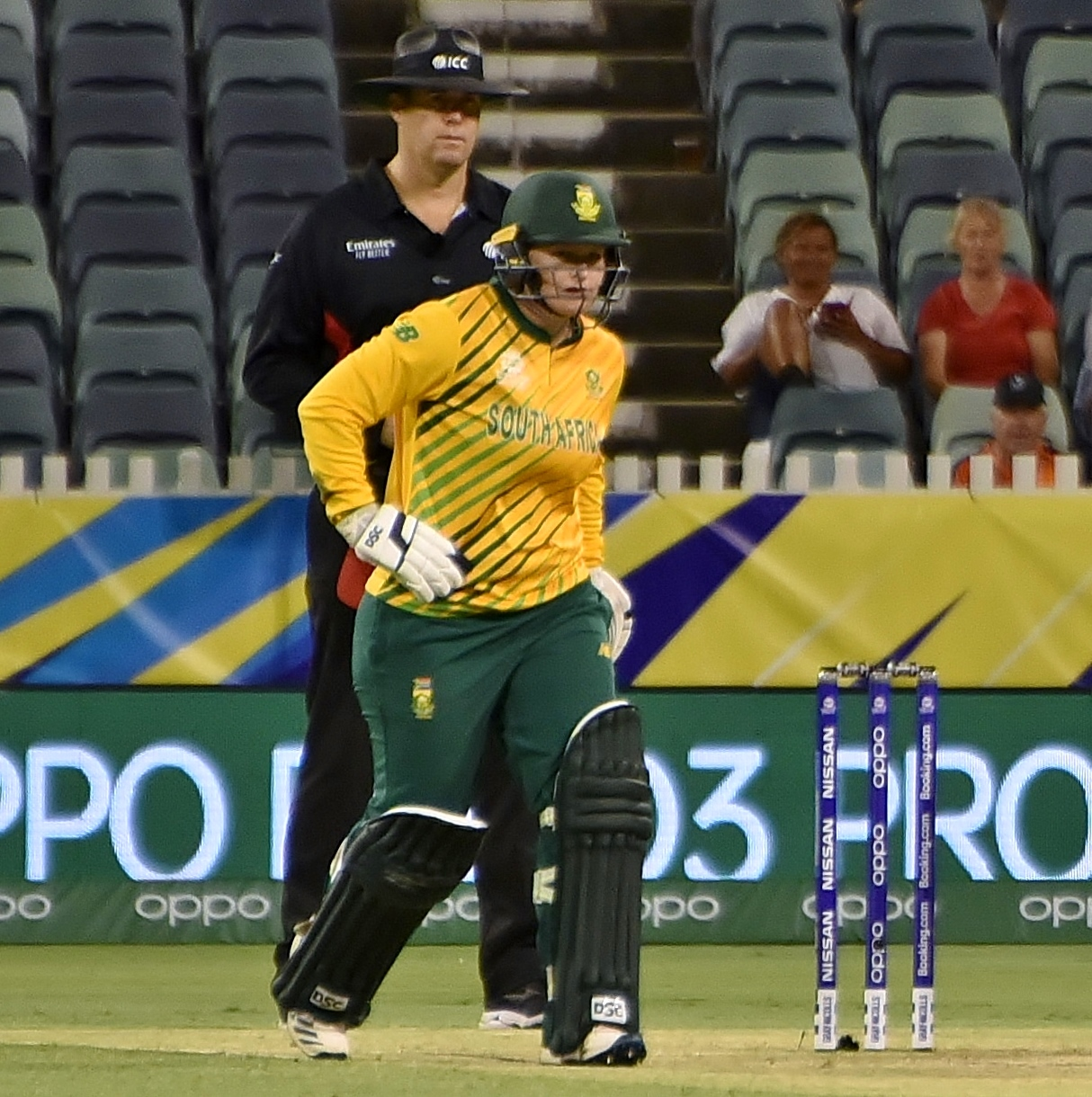 Lizelle Lee batting for South Africa against England during their 2020 ICC Women's T20 World Cup match at the WACA Ground in Perth, Australia